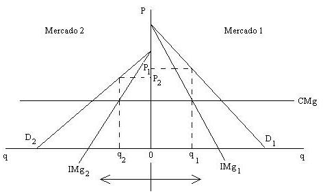 third-degree price discrimination